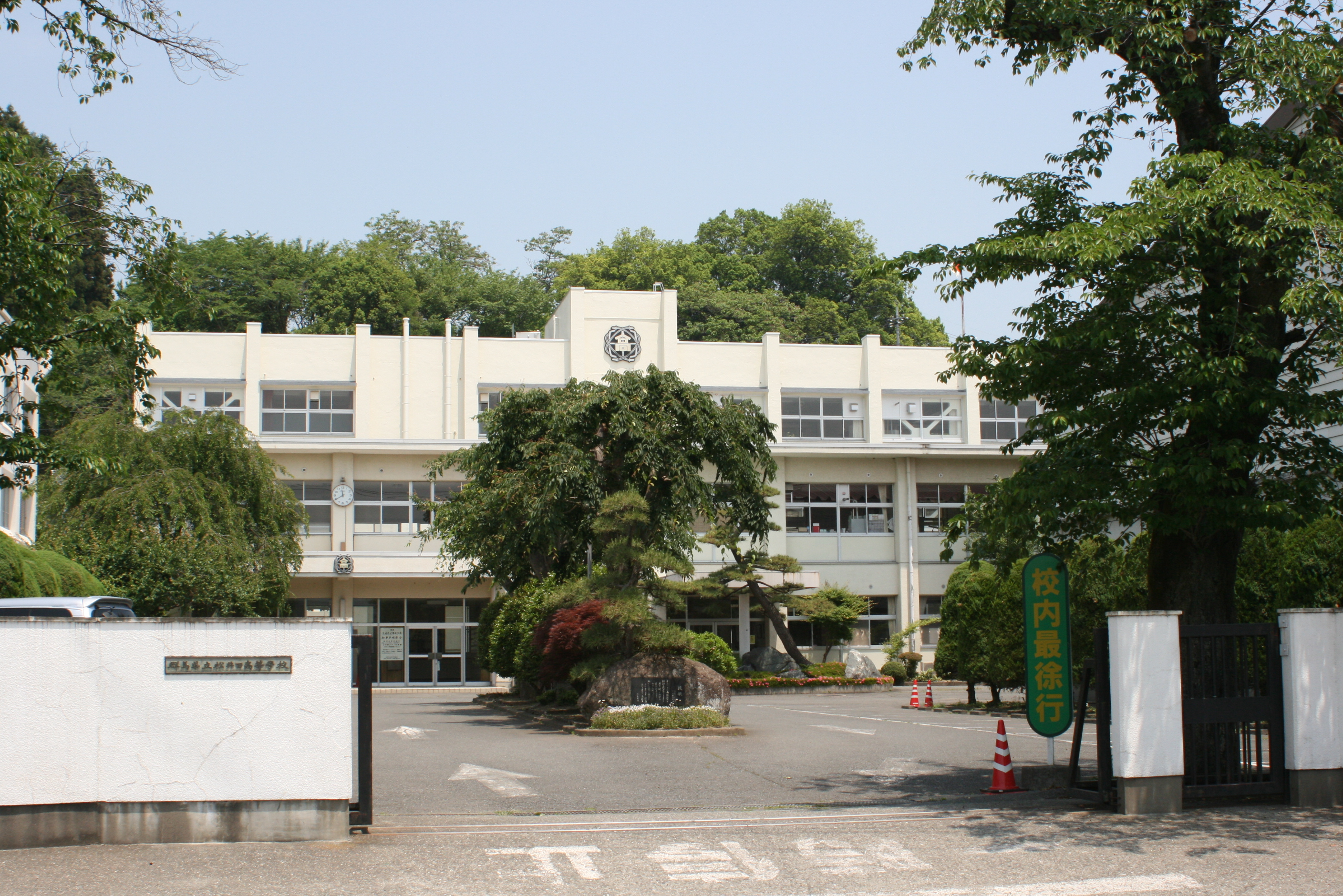 Gunma prefectural Matsuida high school